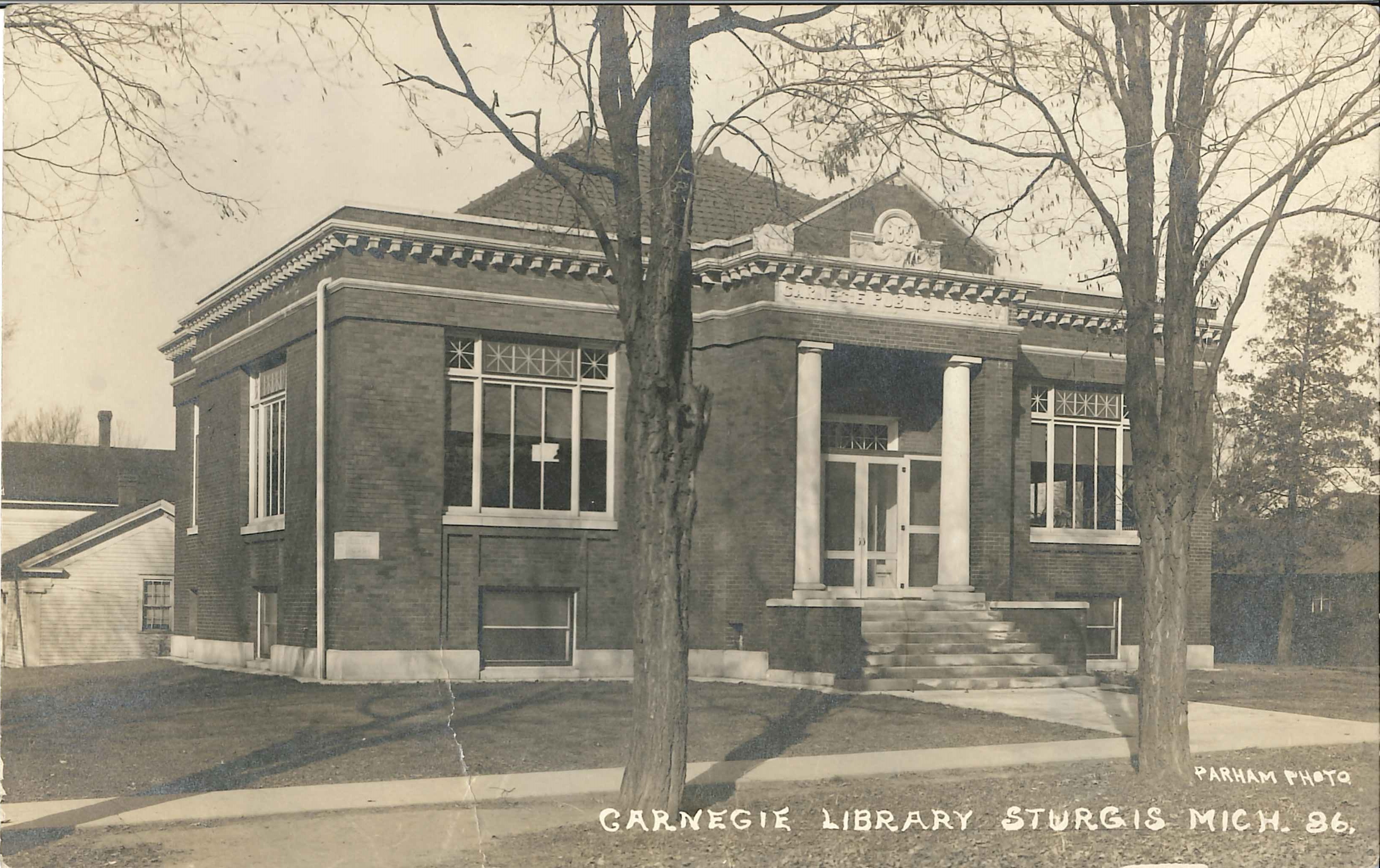 Carnegie Library Sturgis MI postcard